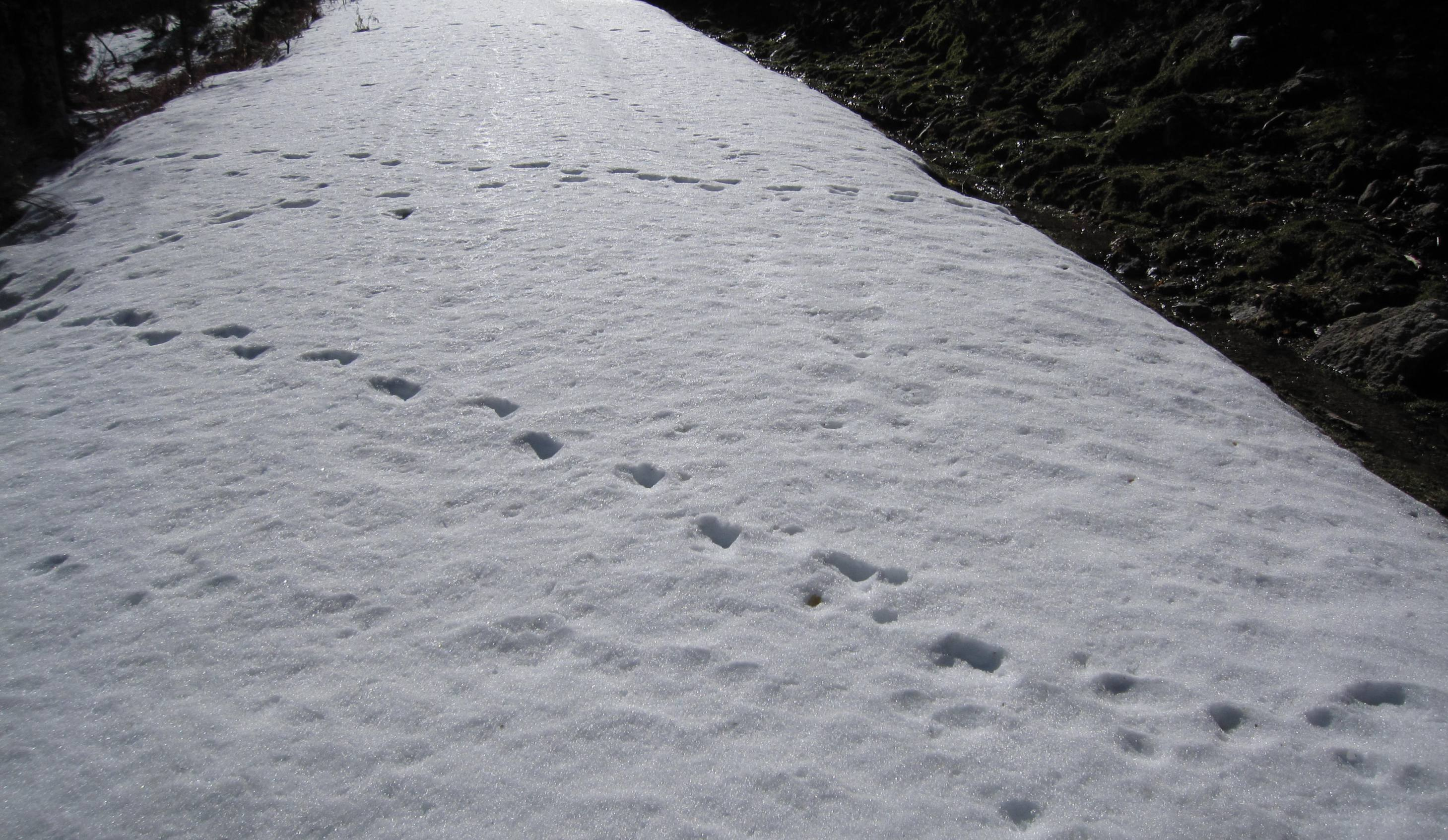 Fingerprints of animals in the snow (Guadarrama mountain range, Central Spain).